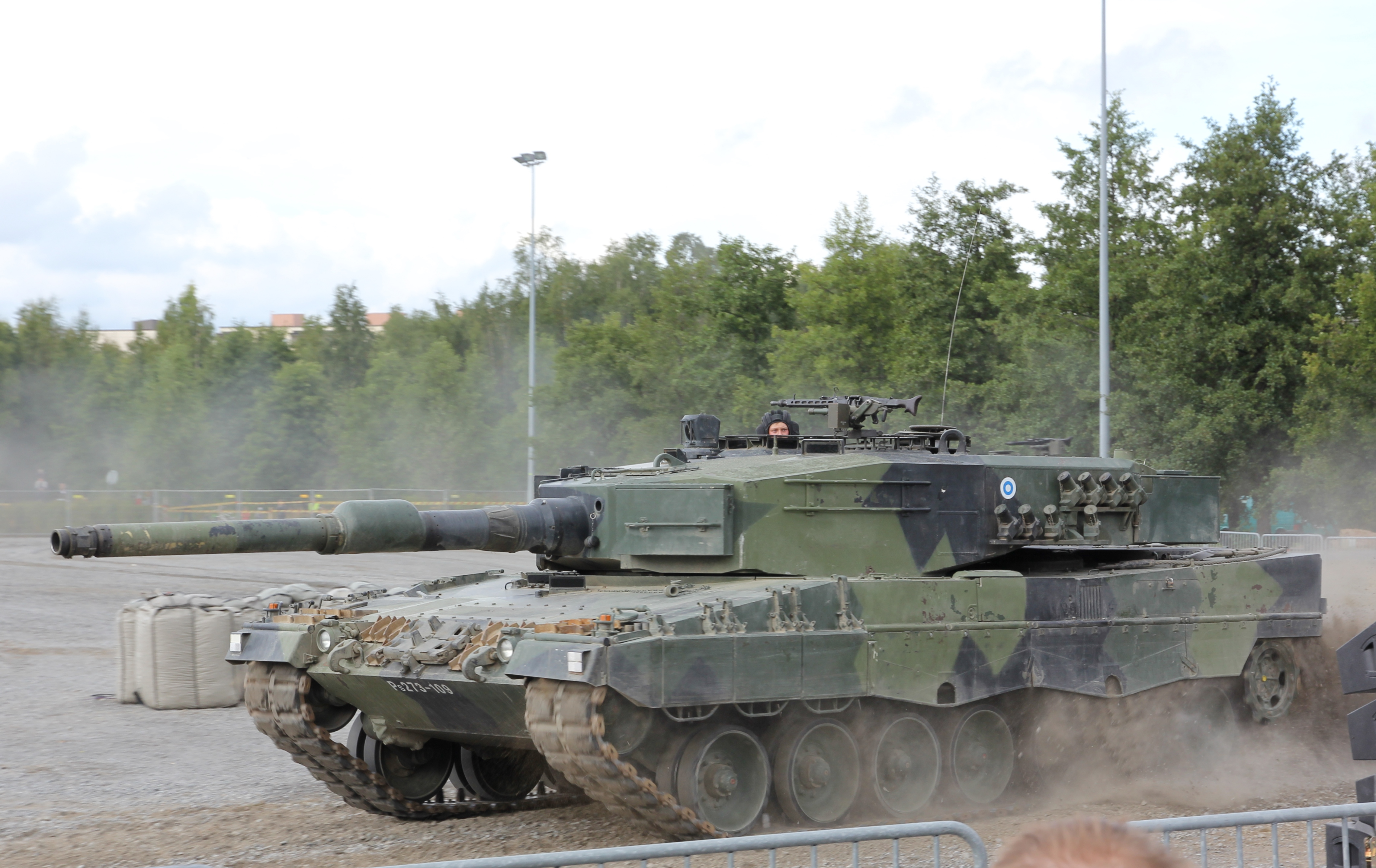 Finnish Leopard 2A4 tank Ps 273-109 in a combat demonstration at Comprehensive security exhibition 2015 in Tampere.